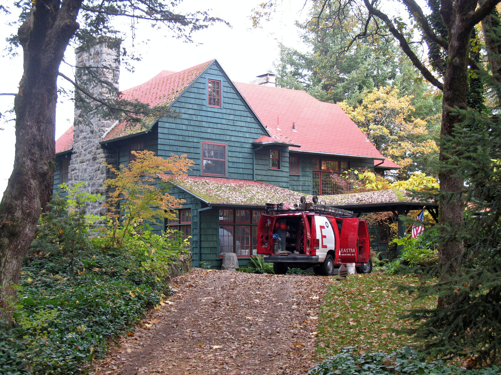 National Register of Historic Places listings in Hood River County, Oregon. Edward J. DeHart House (also known as Lakecliff Estate), 3820 Westcliff Dr, Hood River, OR. Photographed October 28, 2009 from the driveway to the southwest of the house.